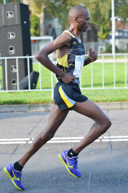 Джонатан Майо на Эйндховенском марафоне 2014 года